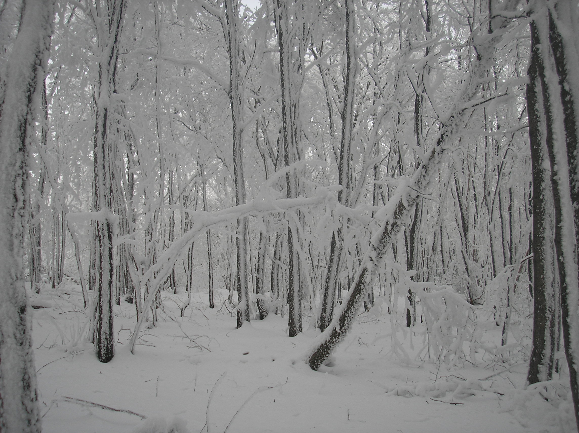 Kumysnaya glade, Saratov, Russia